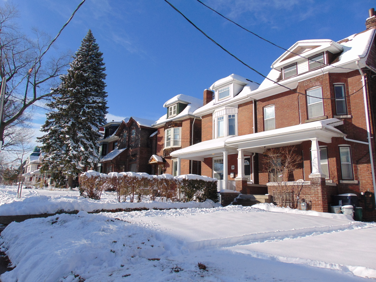 North side, near Broadview Avenue